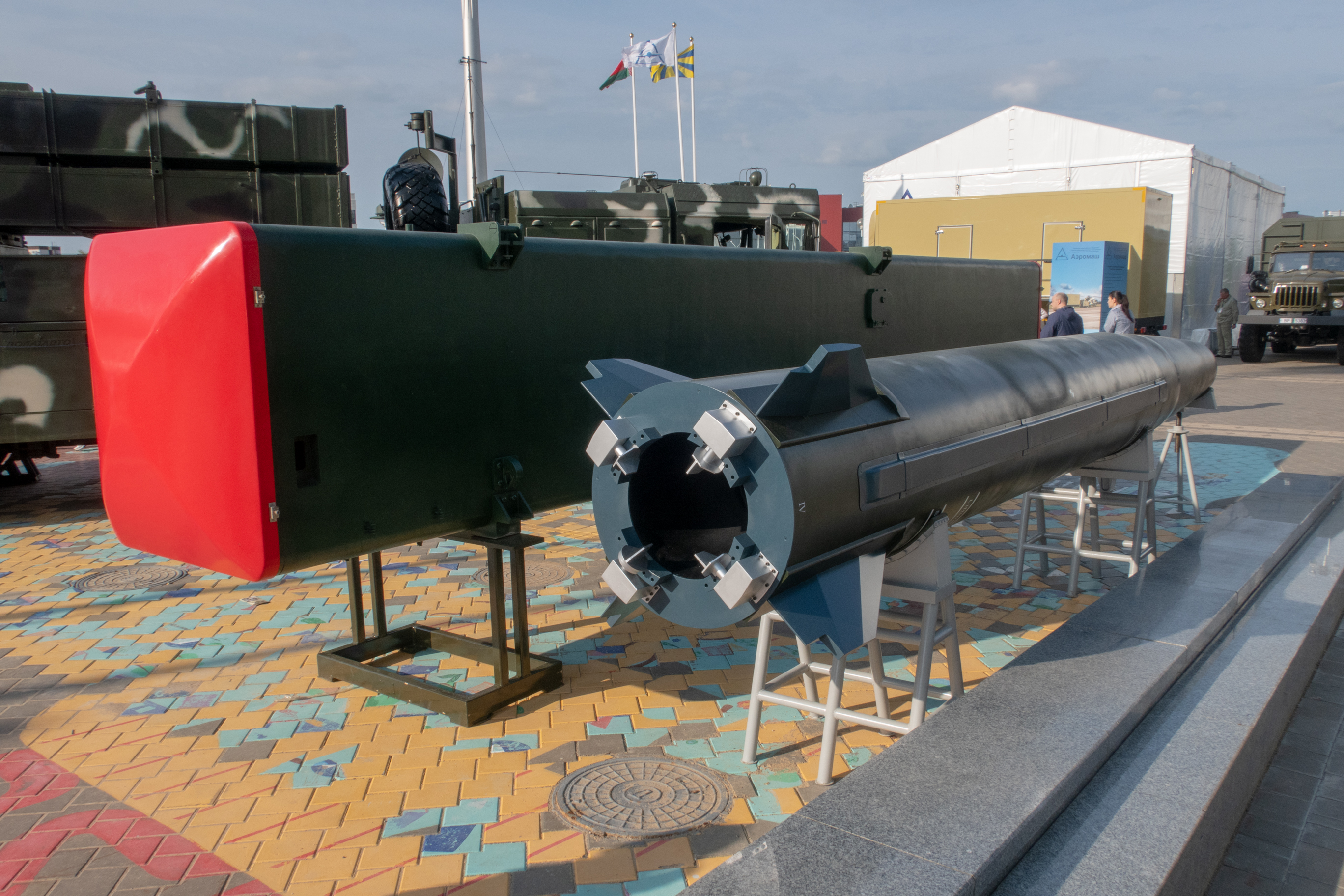 Milex-2019 arms and military machinery exposition (Minsk, Belarus)